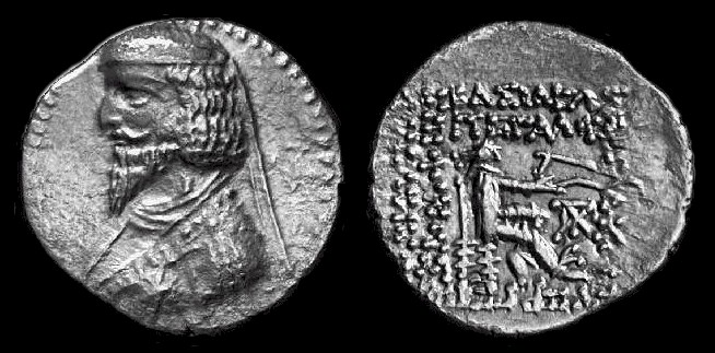 Coin of Phraates III of Parthia from the mint at Ecbatana. The reverse shows a seated archer holding a bow. The Greek inscription reads ΒΑΣΙΛΕΩΣ ΜΕΓΑΛΟΥ (great king).